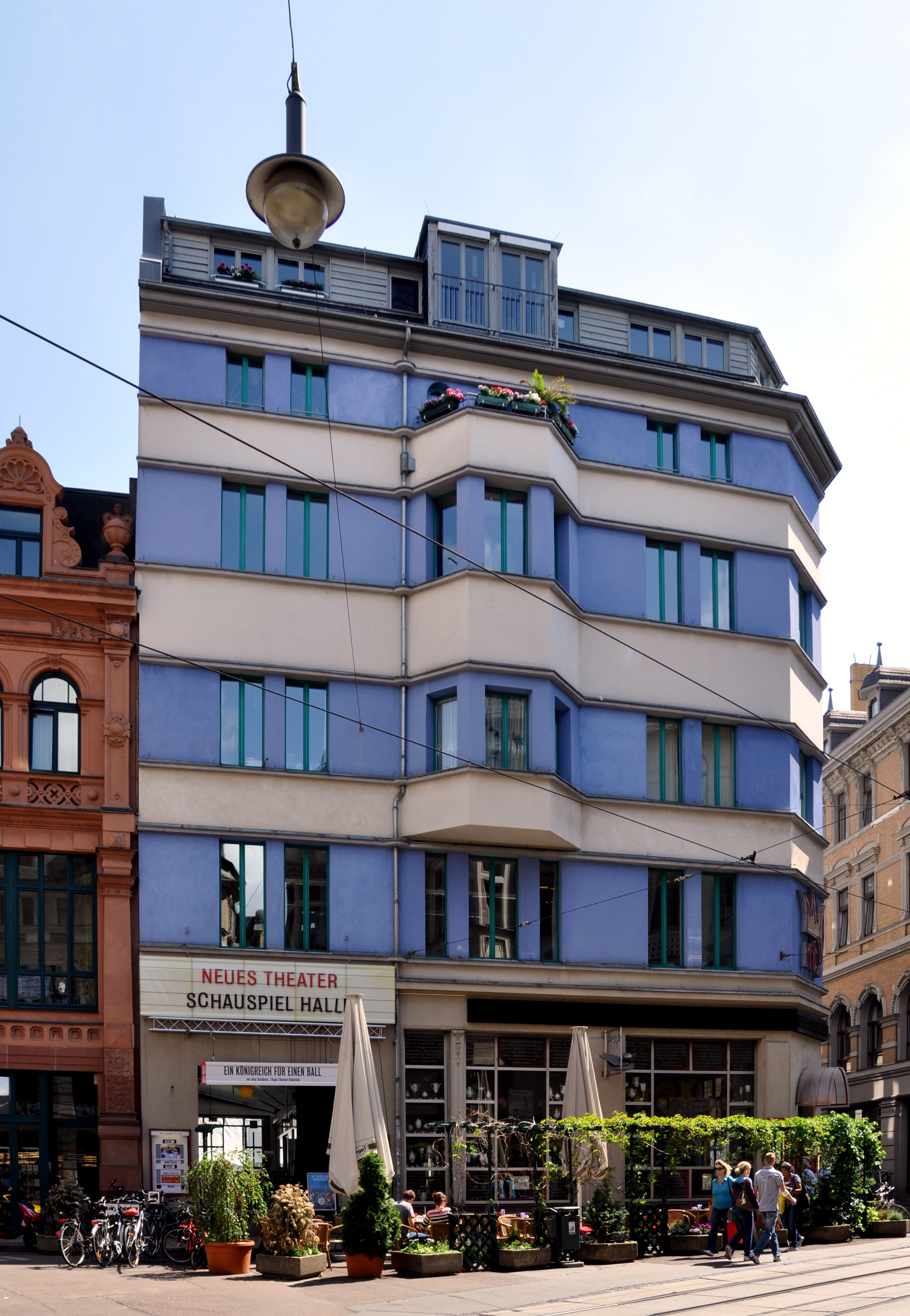 Halle (Saale), Neues Theater